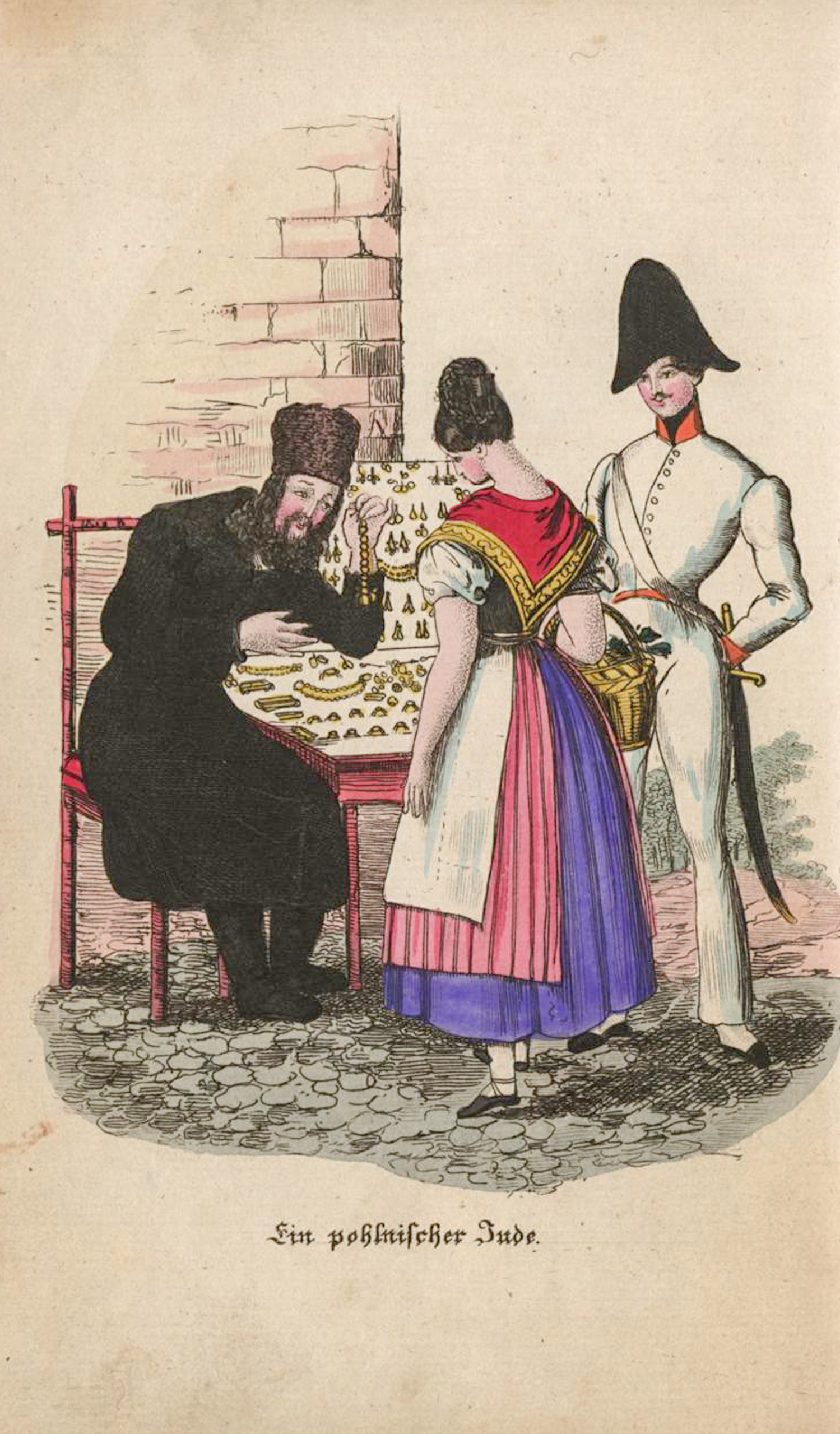 This is a scan of a historical document. A basal reader, in german, printed in Vienna, 1835: Reading exercises for the tender youth.